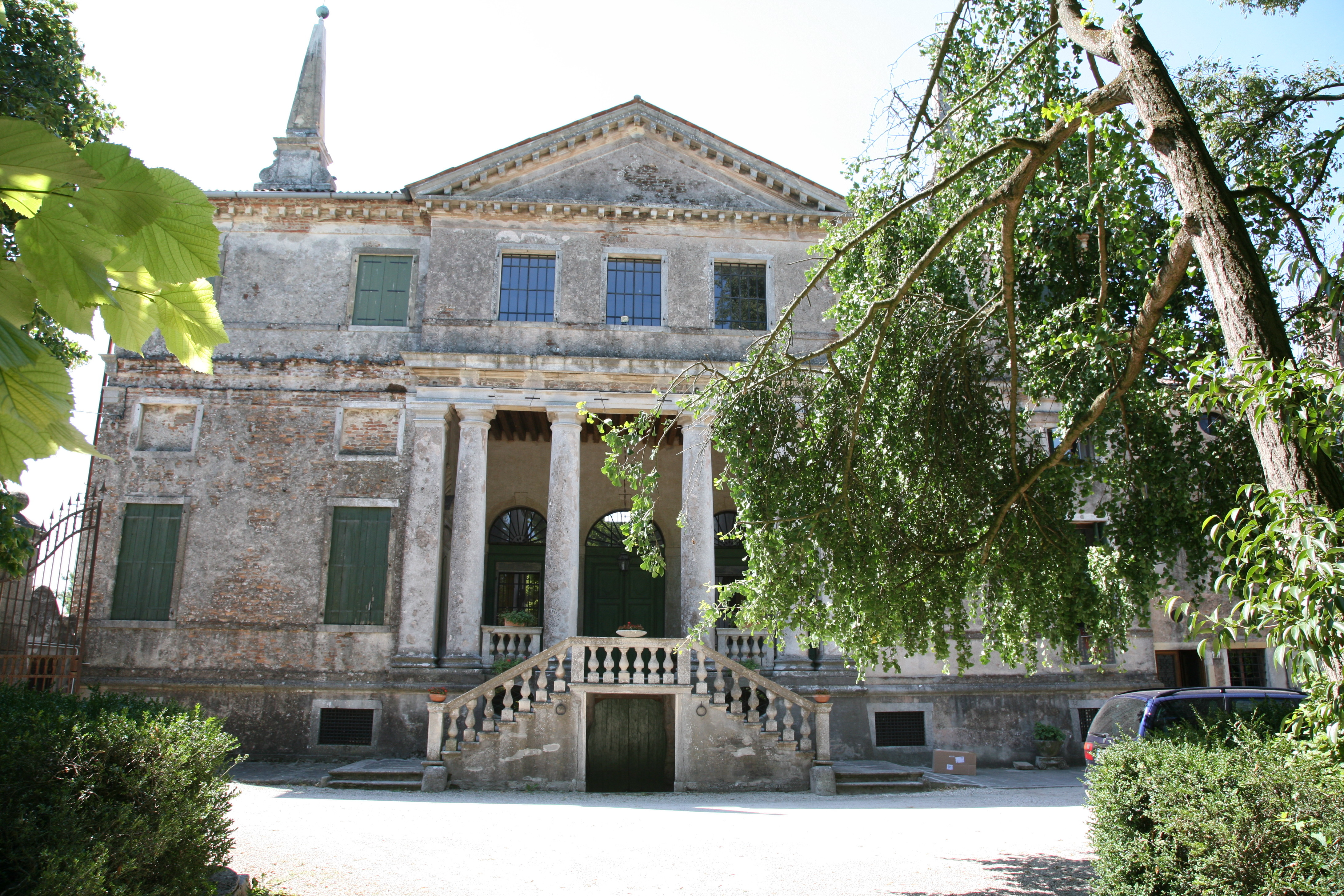 Villa Repeta is an italian villa. The original villa by Andrea Palladio was destroyed by fire.